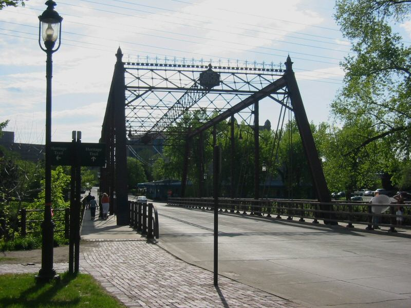 The Merriam Street Bridge in Minneapolis, Minnesota, connecting Nicollet Island with St. Anthony Main.